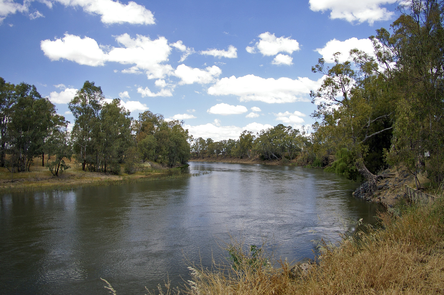 Water release for sercure water licensees down stream increased the river height from 0.7m to 1.7m at Wagga Wagga.